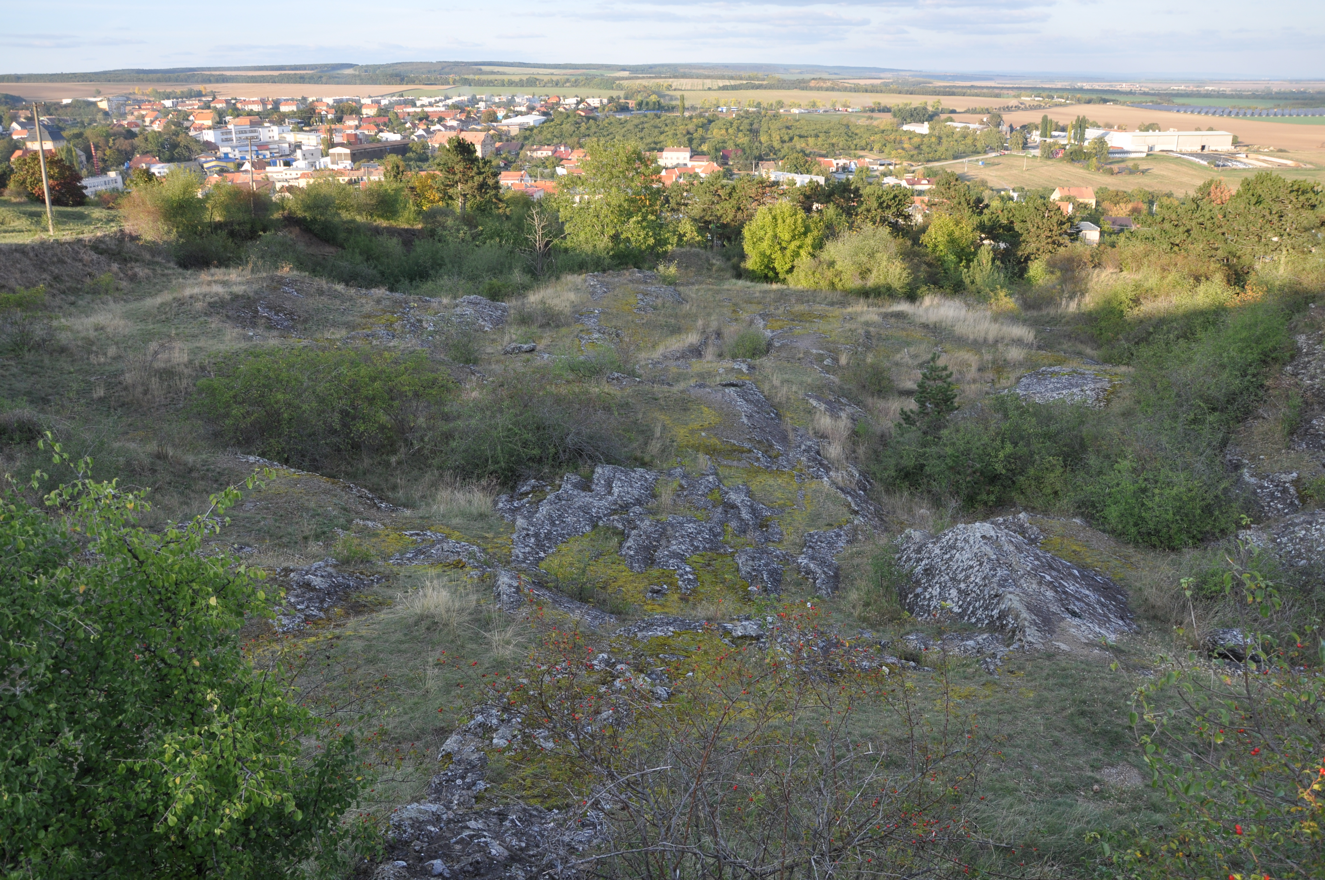 National natural monument Miroslavské kopce in Znojmo District, Czech Republic